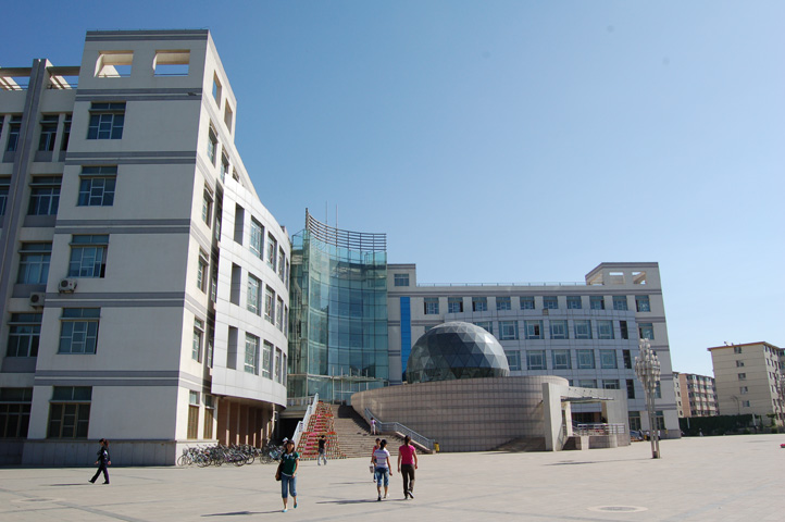 An exterior view of the Library at Inner Mongolia Agricultural University